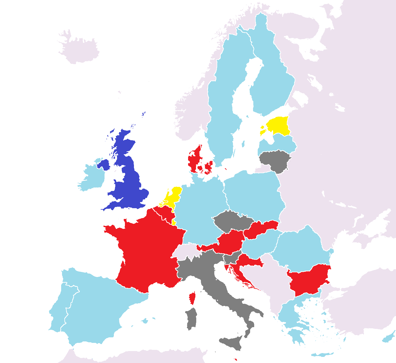 Party affiliations in the European Council (4 December 2013).png